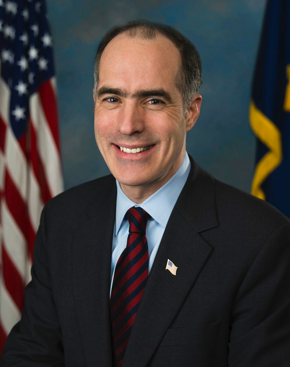 Bob Casey, member of the United States Senate from Pennsylvania.